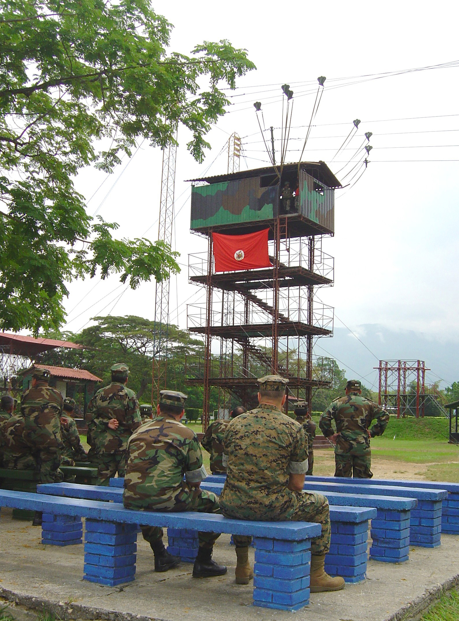 U.S. and Colombian personnel watch as students prepare to jump from the 34-foot tower at the Tolemaida Military Academy Airborne School.